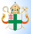 Coat of Arms of the Roman Catholic Diocese of Rotterdam, Netherlands as shown on their website